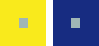 simultaneous contrast Itten